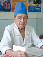 Yevgeny Berliner (1930—2013)